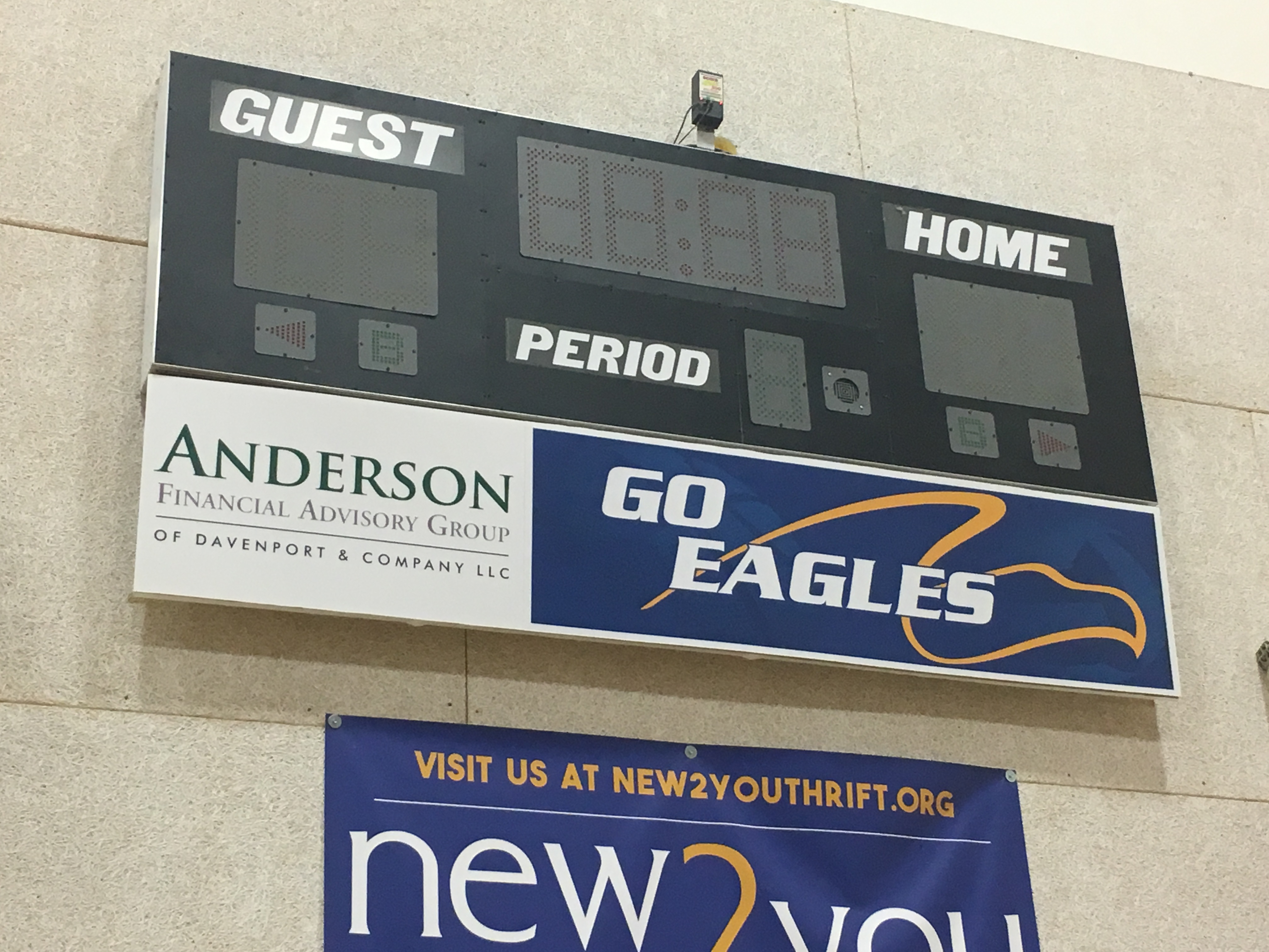 A view Williamsburg Christian Academy's gymnasium scoreboard